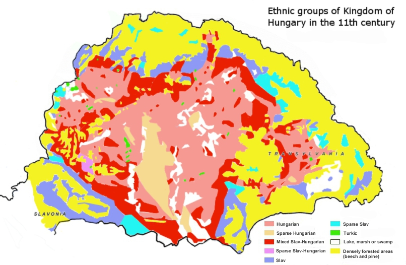 Ethnic map of Kingdom of Hungary in the 11th century based on place-names. ..."Although the historical study of place-names is not practised to the same extent in all countries, it is a recognized branch of historiography. It encompasses the etymology of geographical names as well as cultural and chronological variations in the naming of places. To facilitate their study of Hungarian place-names, István Kniezsa and Géza Bárczi developed an analytical framework that blends etymology, typology, and chronology. The validity of this triple approach has been amply demonstrated, thanks not only to the expertise of the two scholars but also to the peculiarity of Hungarian toponymy, which is readily distinguishable from that of any other culture. Most of the early Hungarian toponyms are derived from the names of people, clans, and ethnic groups, or from occupations, and used in the nominative case singular (e.g. Árpád, Megyer, Cseh [Czech], Ács [carpenter]). This type of toponymy appears in the earliest documents, dating from around 1000 AD. The pattern holds well into the 13th century — until the 1220s in western Hungary, and the 1270s in the eastern parts, including Transylvania..."(László Makkai, TRANSYLVANIA IN THE MEDIEVAL HUNGARIAN KINGDOM (896–1526), IN: Köpeczi Béla (General Editor), HISTORY OF TRANSYLVANIA Volume I. From the Beginnings to 1606, Distributed by Columbia University Press, New York, 2001, ISBN 0-88033-479-7) ."The verifiable name layers from the early period of the conquest were subjected to study in Hungary from the 1930s and 1940s, resulting in early historical place-name typologies (Moór 1936: 110–117, Kniezsa 1938, 1943, 1944, 1960, Kertész 1939: 33–39, 67–77, Kristó 1976), the results of which are still to this day largely accepted by the research community without reservation."[1]